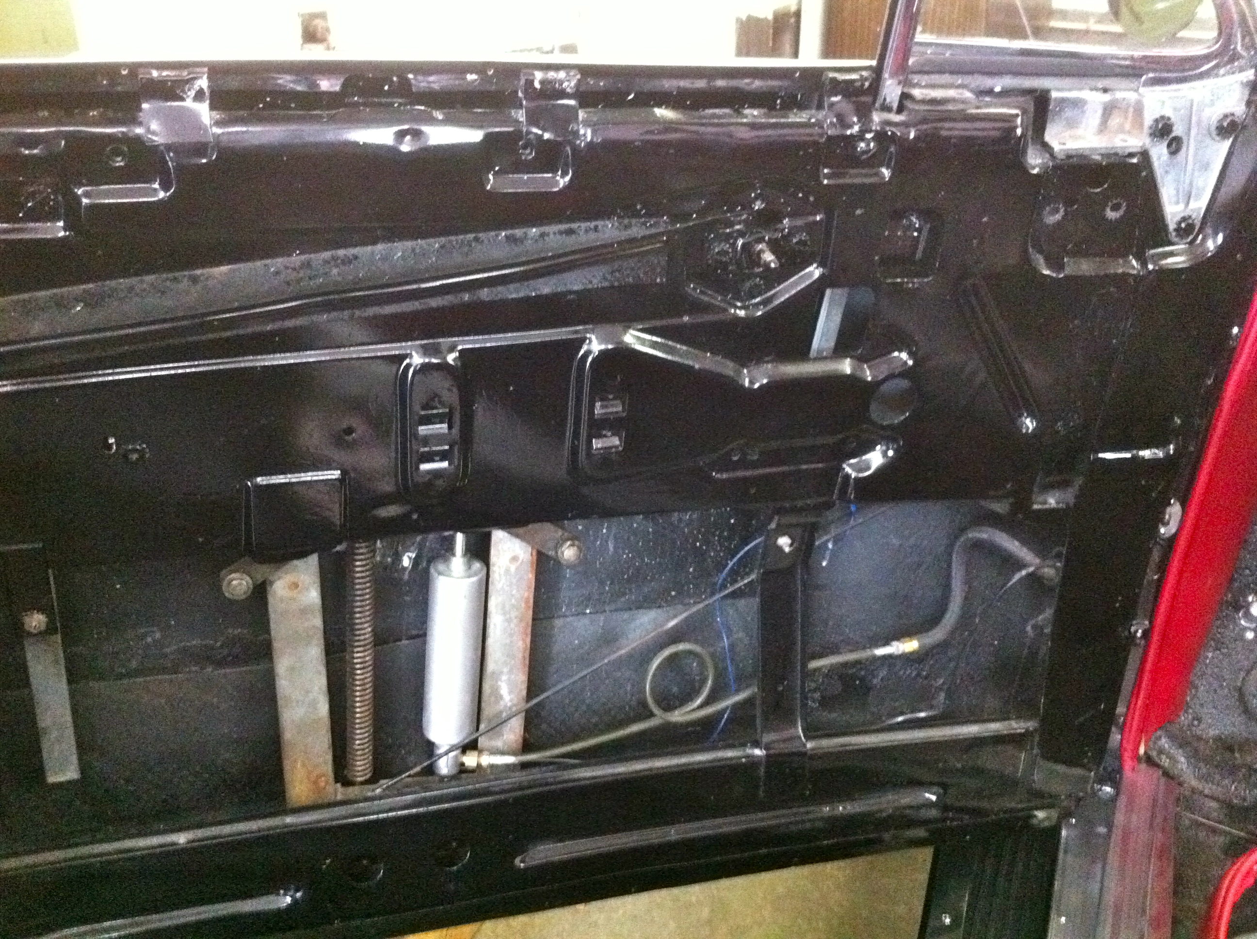 The inside of an automobile door with the interior trim removed. The car is a Buick and the hydraulic cylinder and tubing is visible, designed to operate the power window lift system.